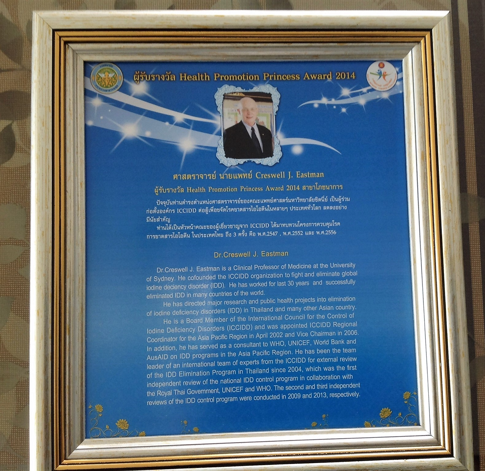 Citation for Thailand Princess Health Award